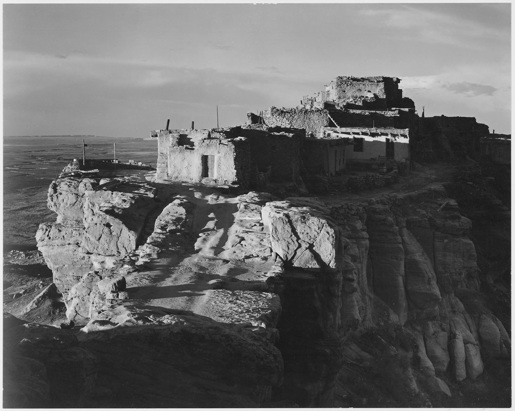 General notes: Close up view of item NWDNS-79-AA-S01.